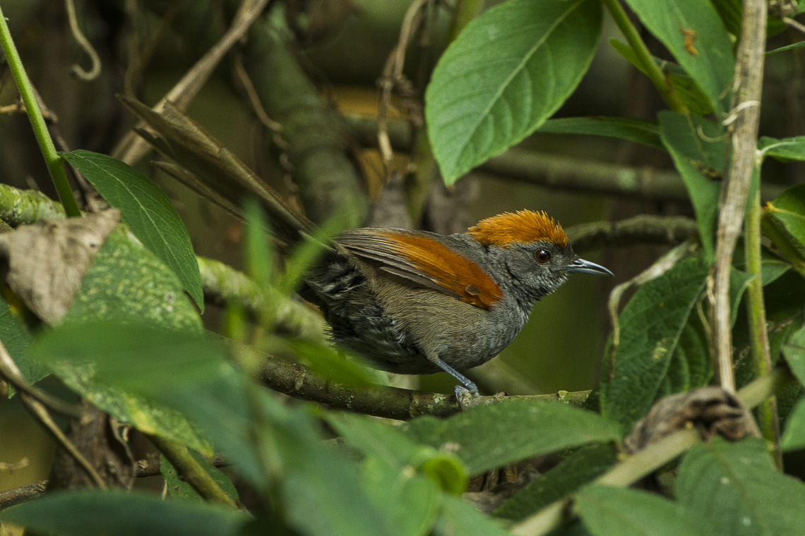 Slaty Spinetail - Colombia_S4E0885